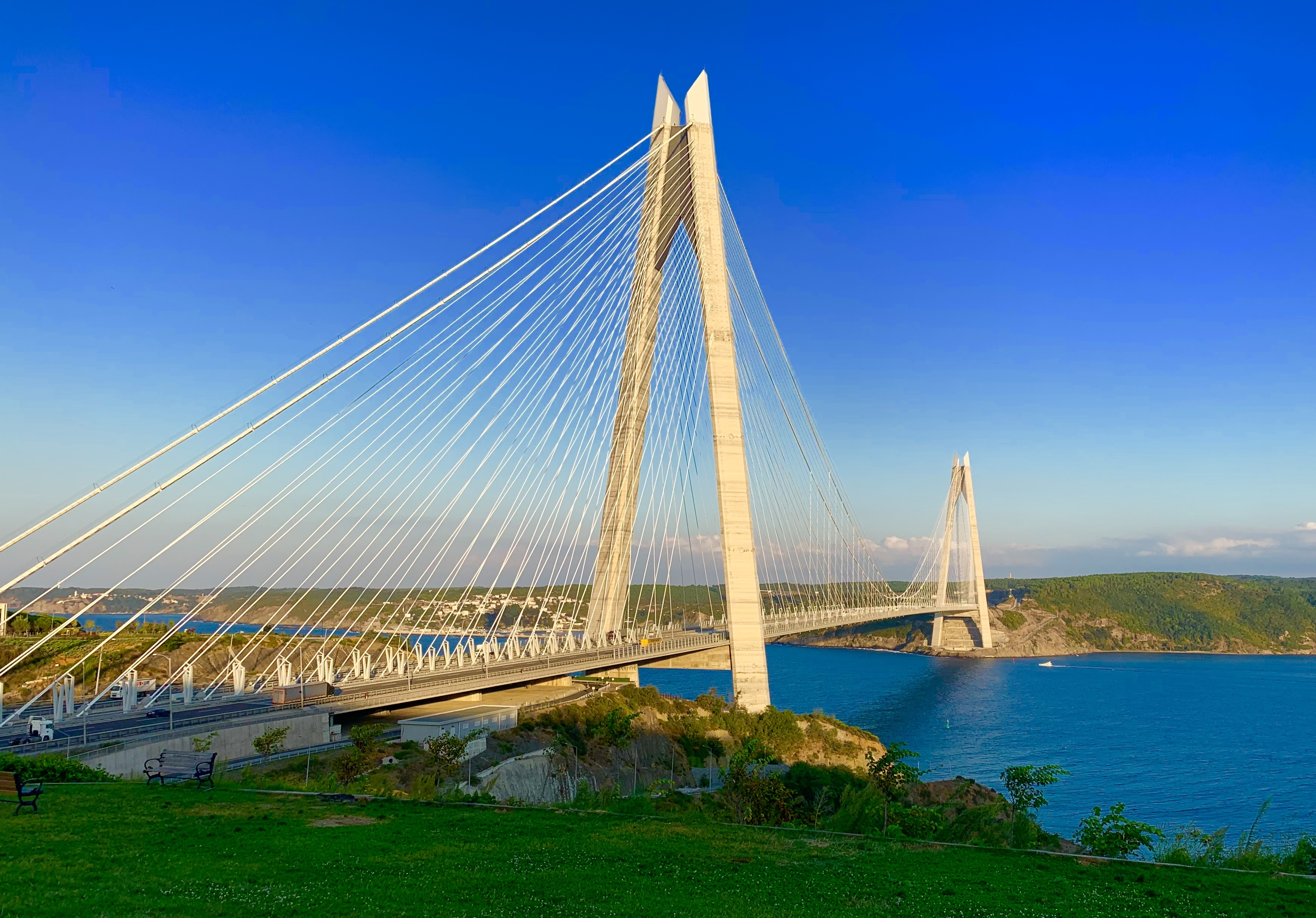 This Shows how great the civil engineers are